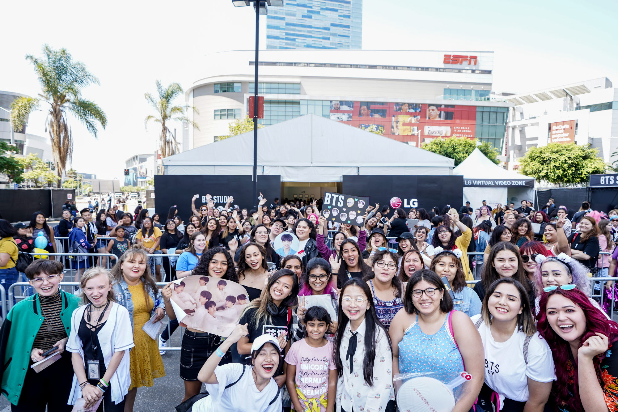 Fans at the BTS world tour concert 'Love Yourself' in Los Angeles ■ Marketing campaign in conjunction with BTS' second world tour in the United States ■ Operation of 'BTS Studio' including product experience hall, photo and video booth